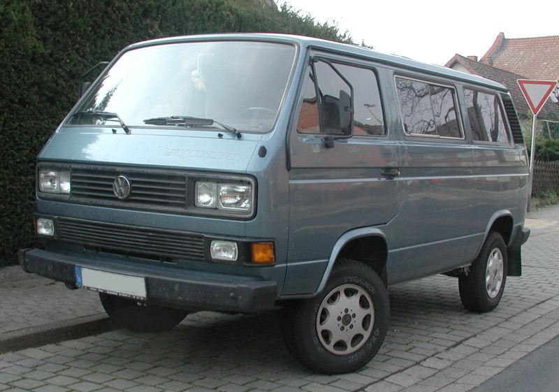 VW Type2 T3 Caravelle Syncro